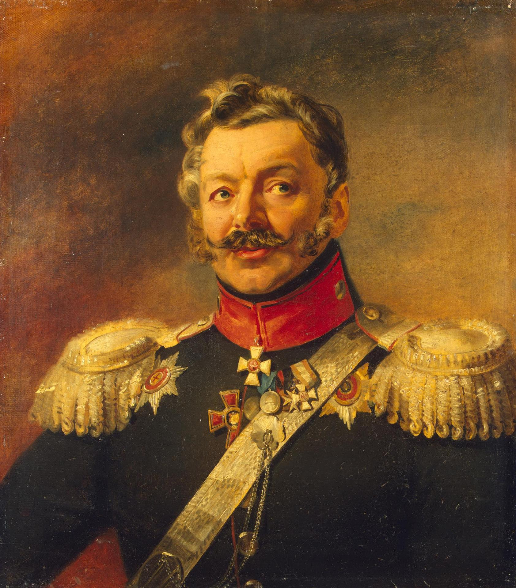 Portrait of Paul Carl Ernst Wilhelm Philipp Graf von der Pahlen (Павел Петрович Пален, 1775-1834), russian Cavalry General.